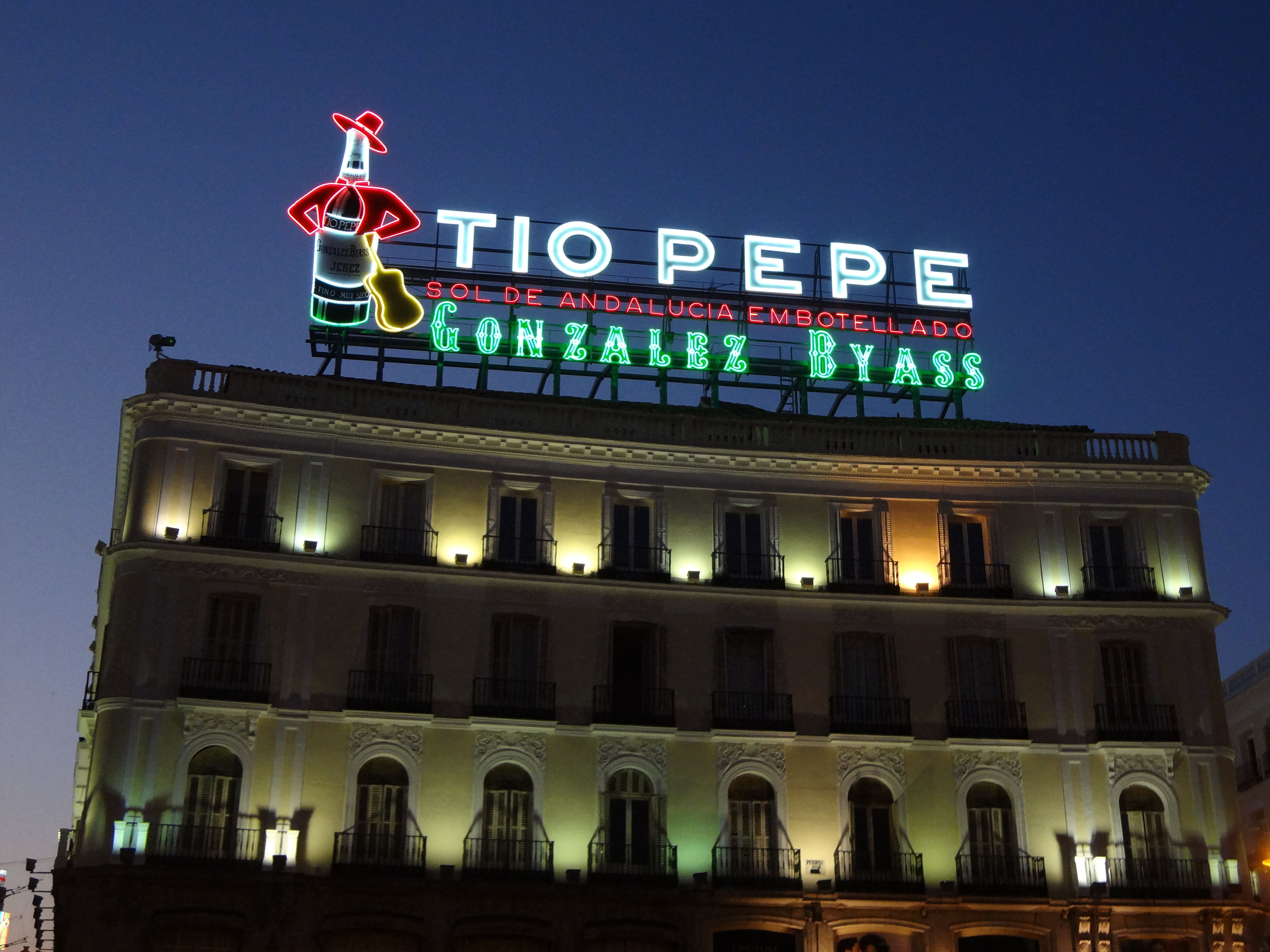 Tio Pepe Neon Advertisment at Puerta del Sol in Madrid, Spain ' Photographed at Sunset